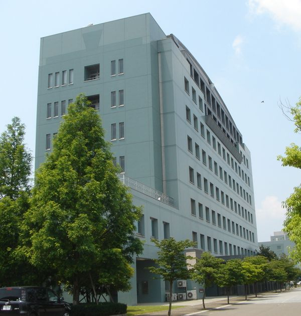 Seki City Hall in Gifu Preferture, Japan